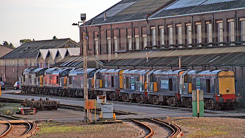 DRS locos, 3 class 37s and 4 class 20s, awaiting overhaul at Eastleigh